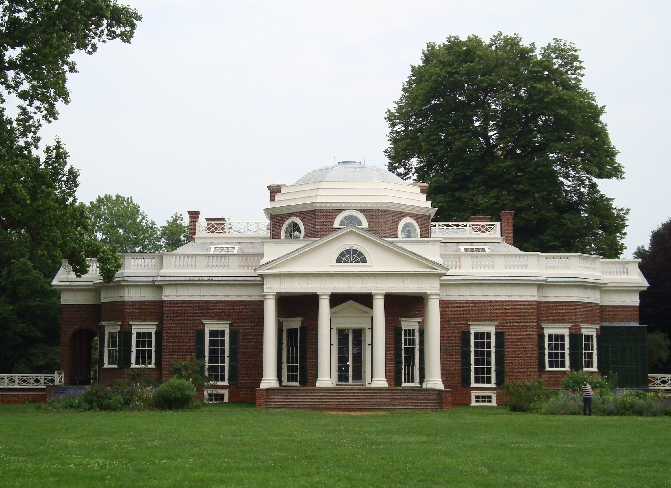 Back side of Thomas Jefferson's home Monticello